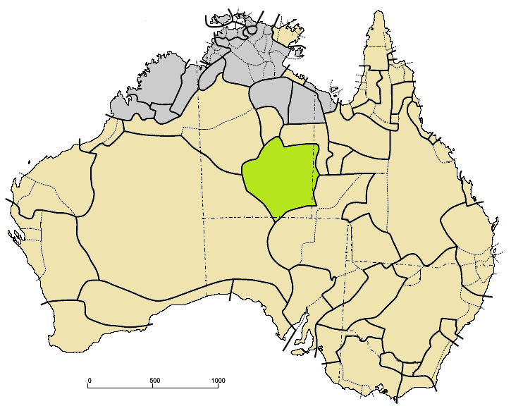 Arandic languages (green) among other Pama–Nyungan (tan)